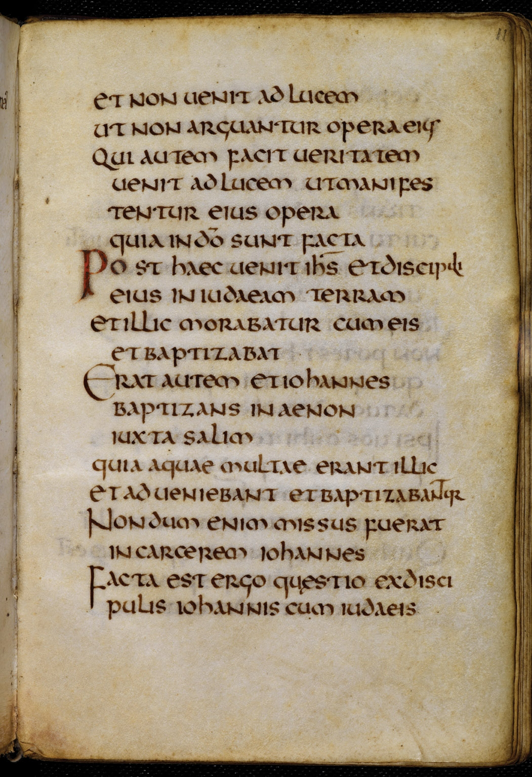 Page of the Gospel of St John in the St cuthbert or Stonyhurst Gospel. Northumbrian, c. 698 British Library